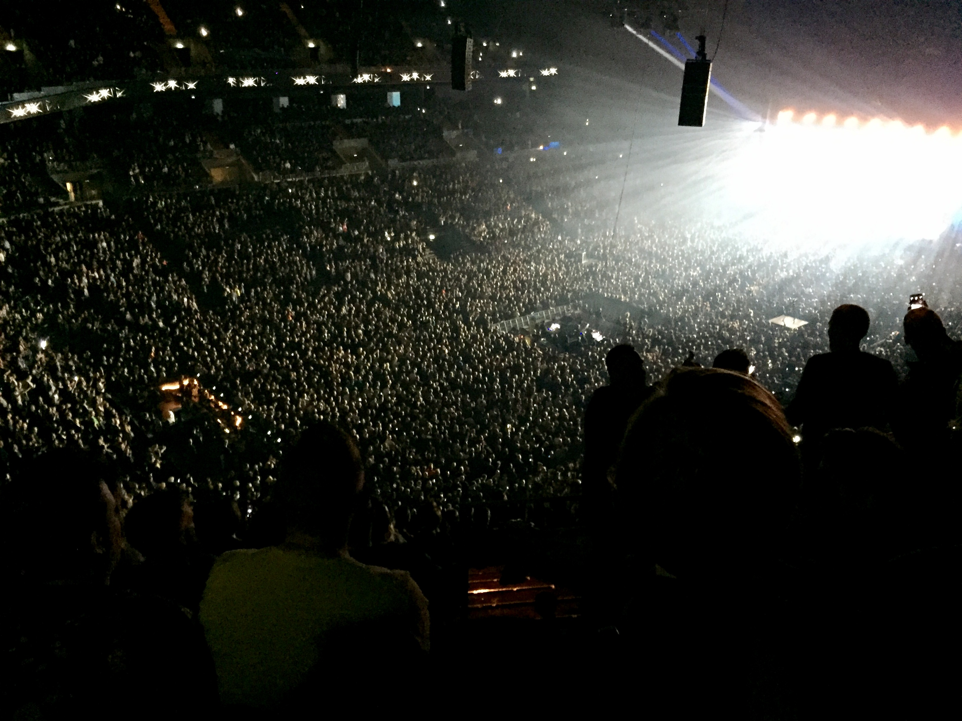 Inside Royal Arena in Copenhagen. Picture taken during the D-A-D & Dizzy Mizz Lizzy concert on 2017-02-17